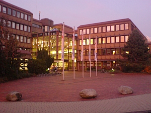 RTL Journalism School Building in Cologne